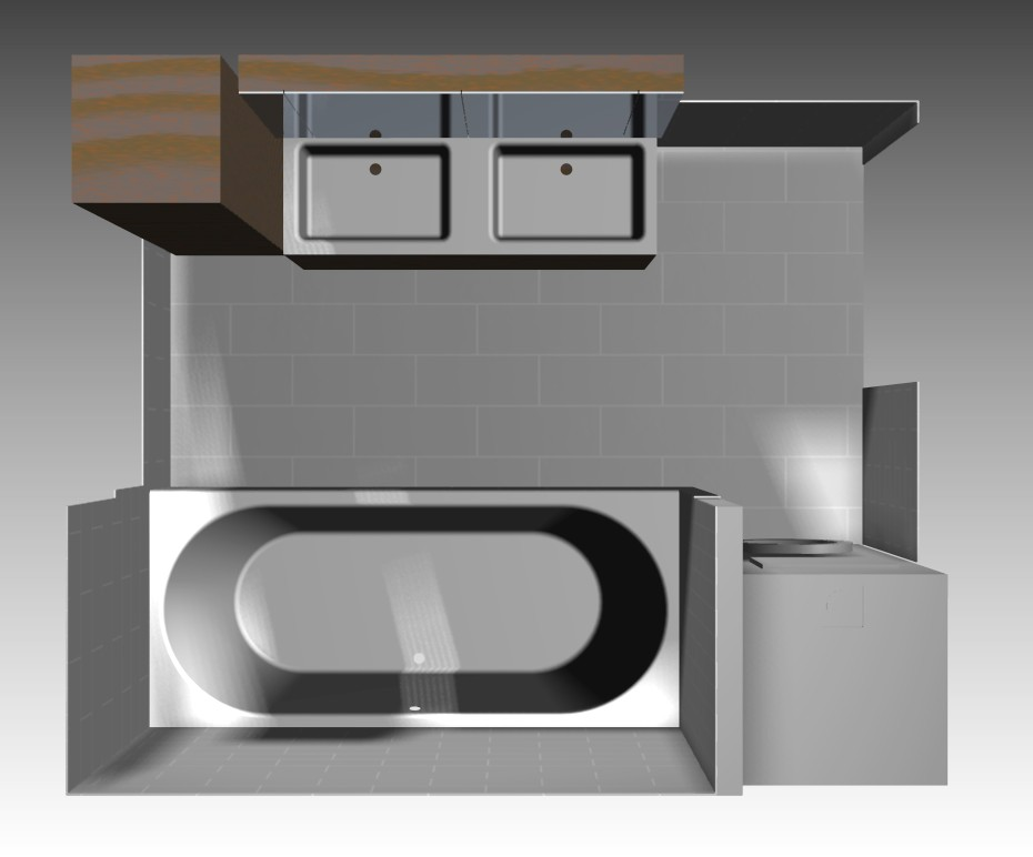 Solid Edge ST Bathroom Rendering